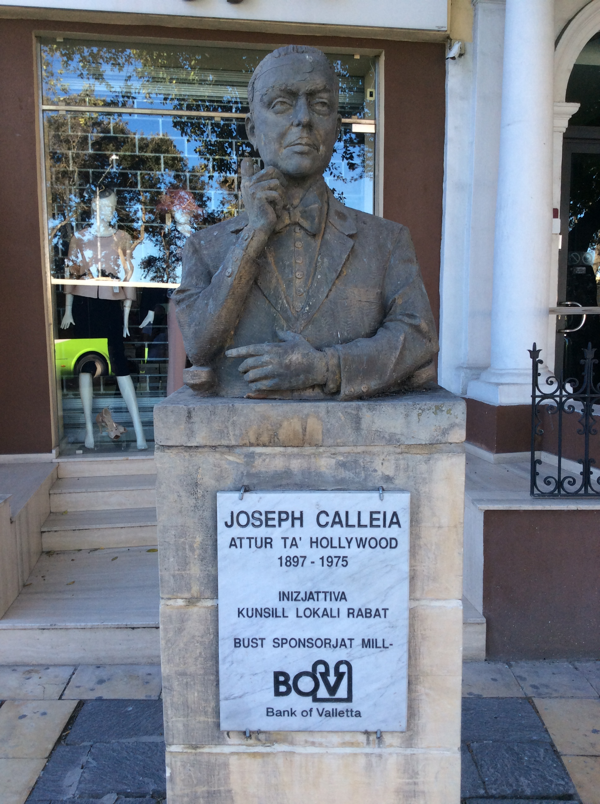 Saqqajja, Mdina